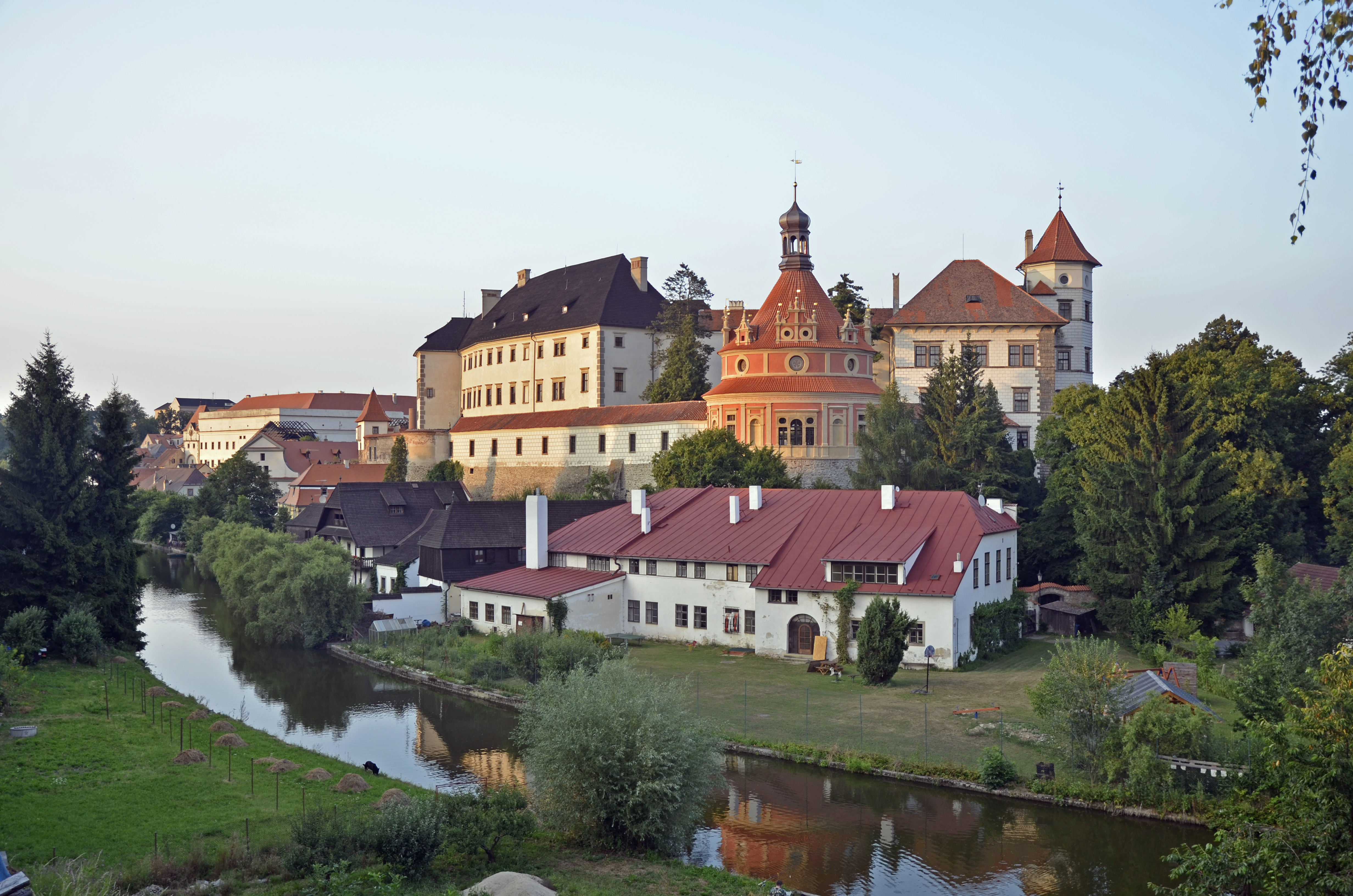 Jindřichův Hradec - Castle of Jindřichův Hradec (Czech Republic)